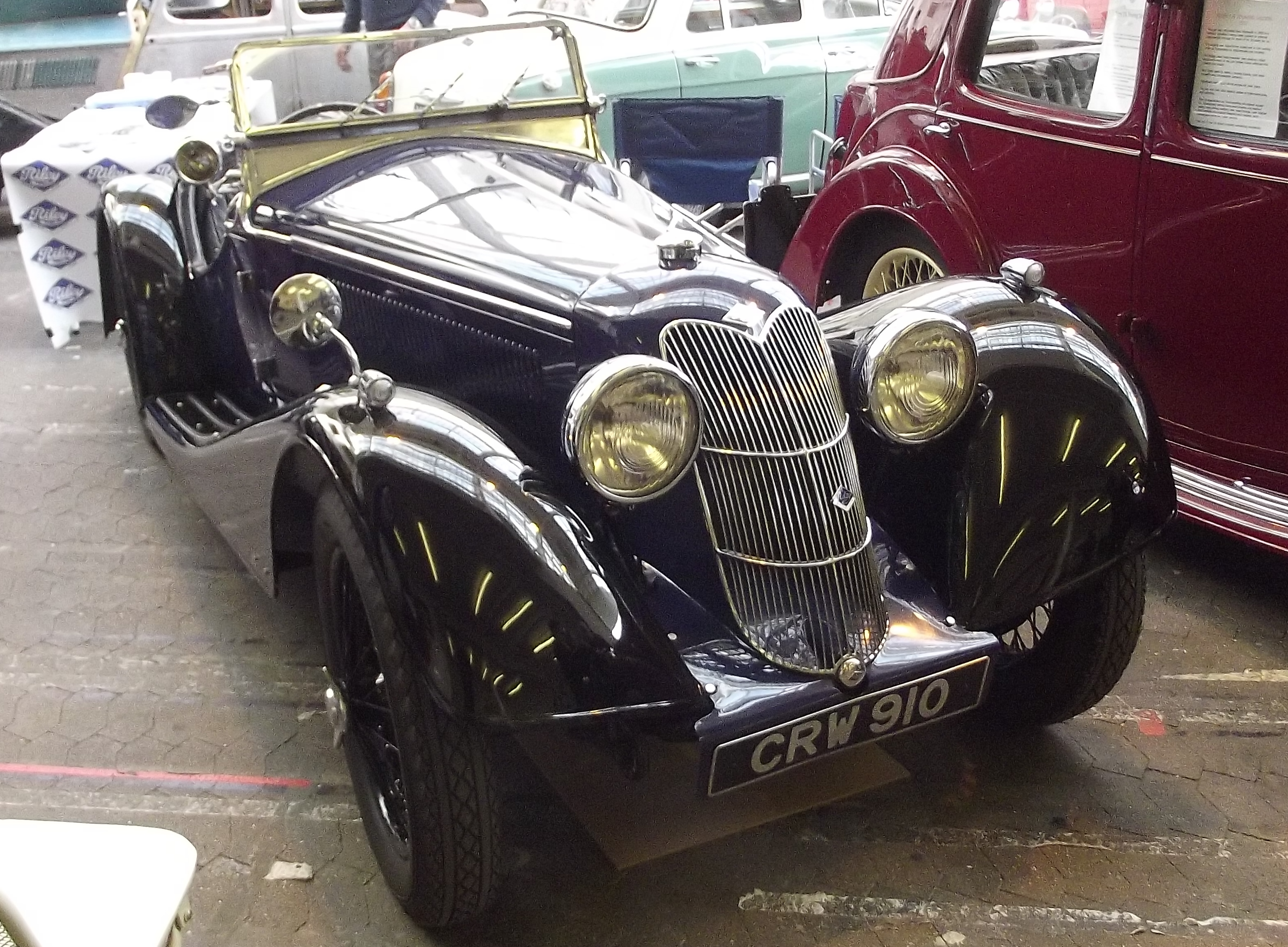 Riley Sprite 1937 (DVLA) first registered 1 May 1937, 1500cc